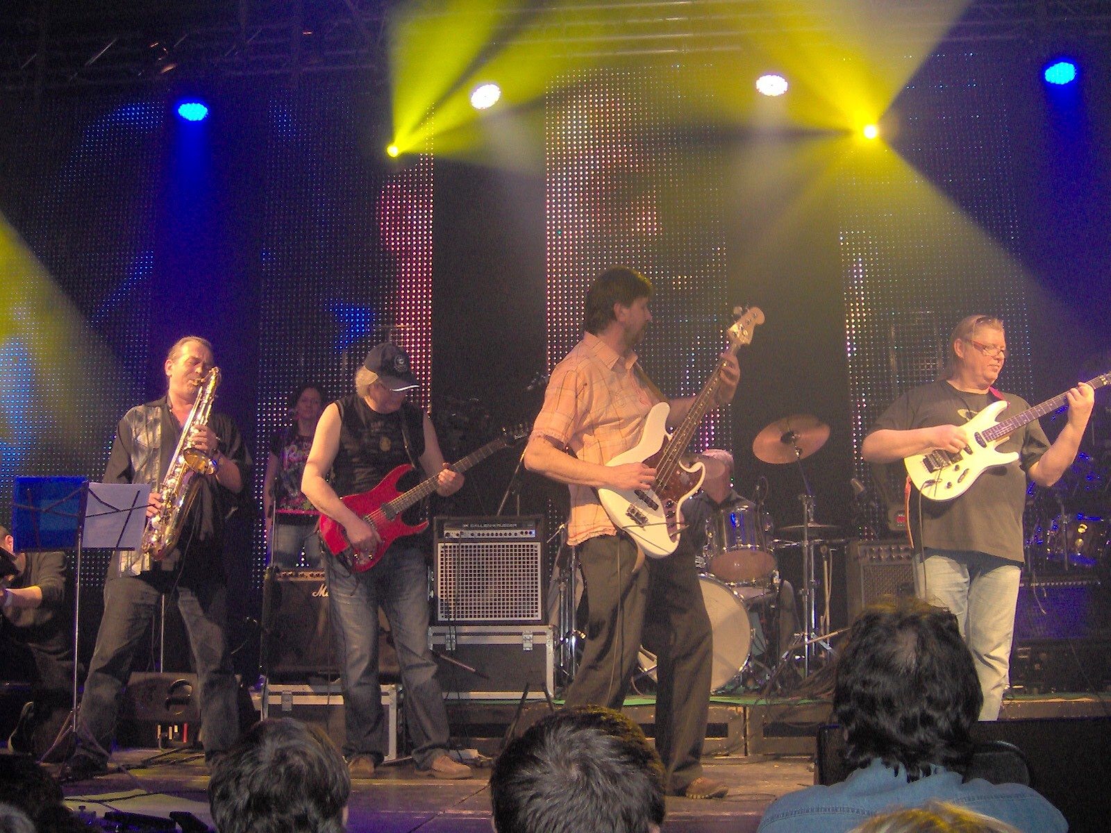 Band Futurum (from left: Leopold Dvořáček, Miloš Morávek, Lubomír Eremiáš, Emil Kopřiva), Brno, Czech Republic